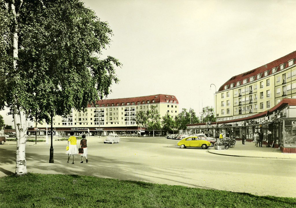 "Spektrumhuset" (Spectrum Building) at the Railway Square in Umeå. People and cars.